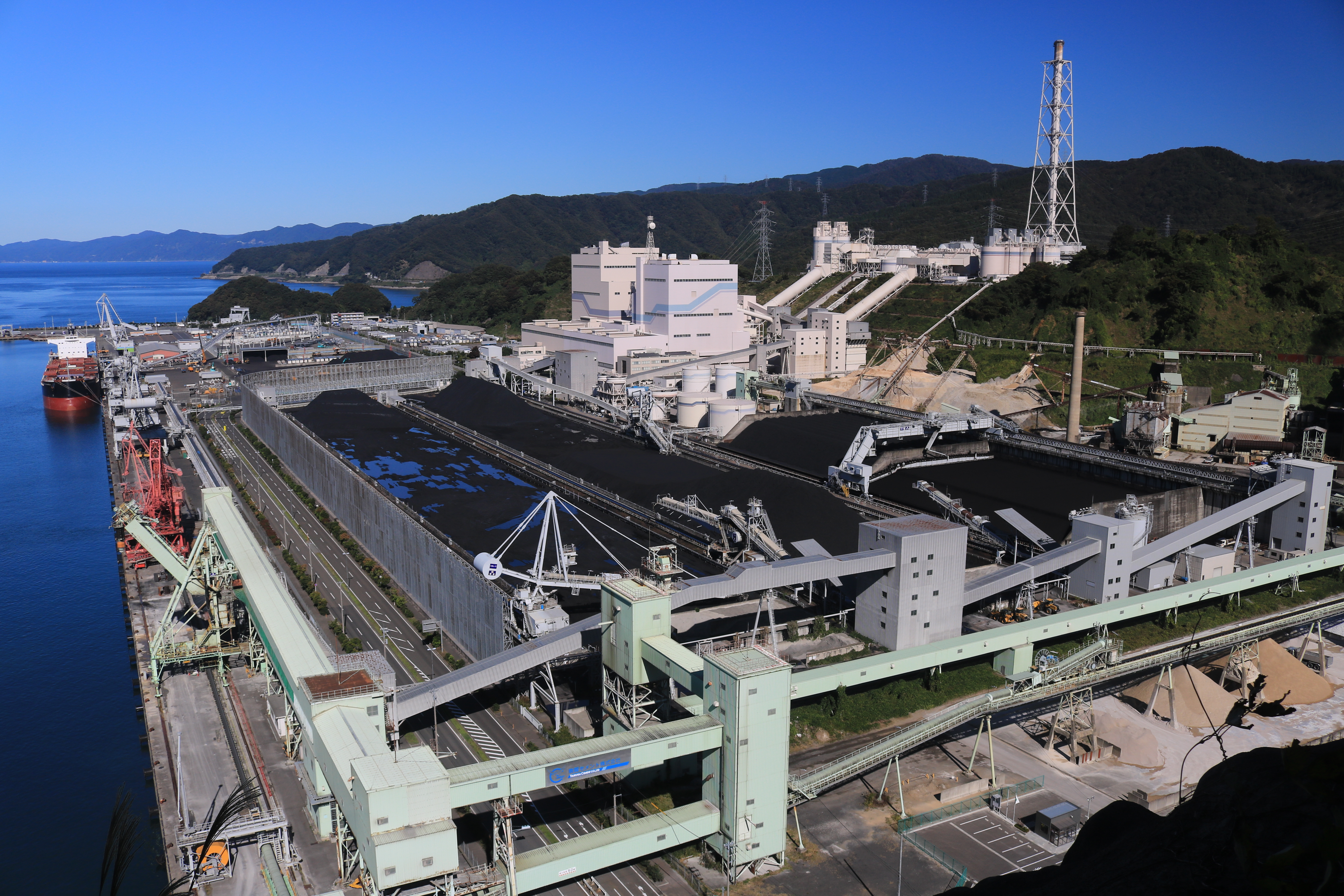 Tsuruga Thermal Power Plant in Tsuruga, Fukui prefecture, Japan.